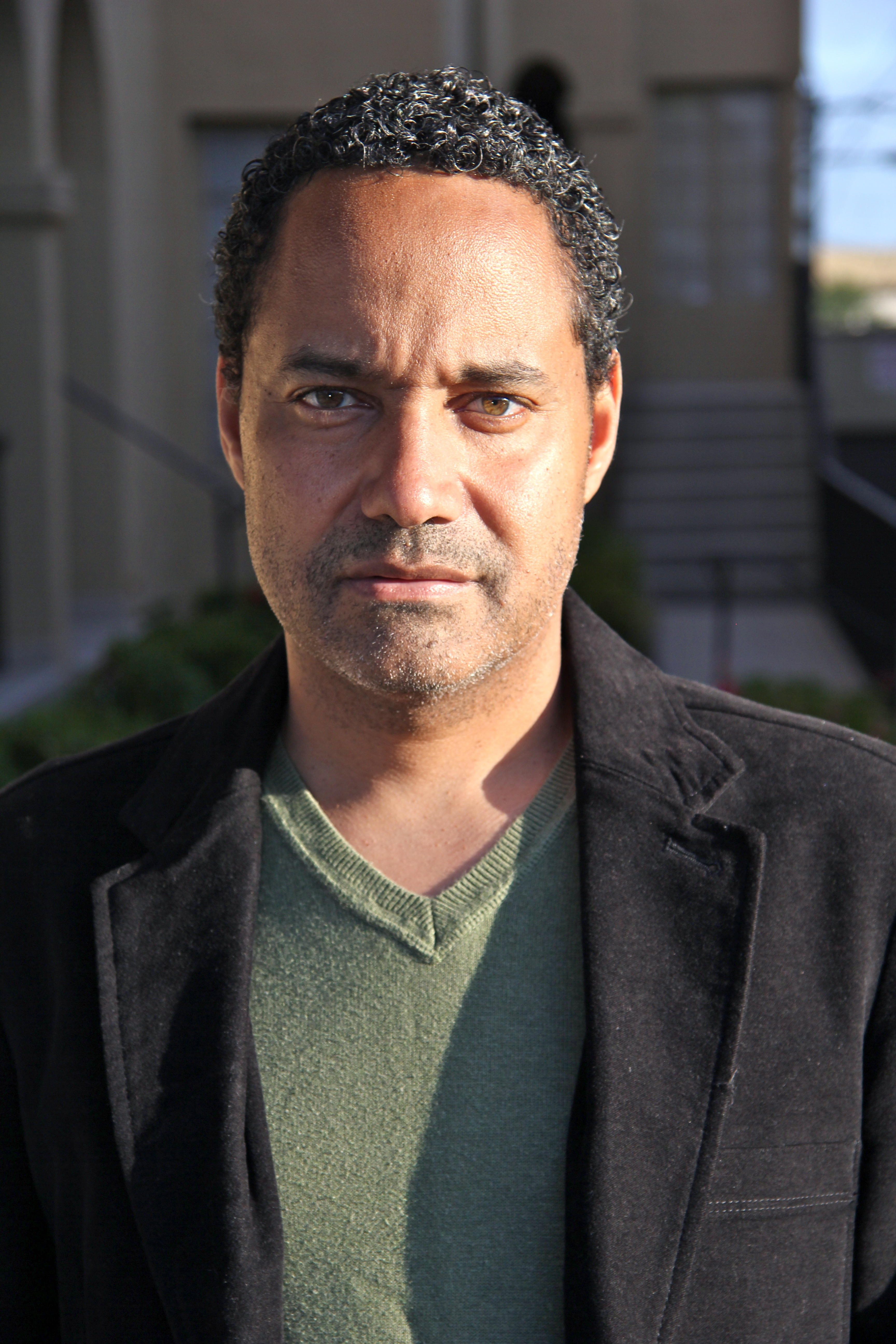 This is a picture taken of me by a friend who gave me permission to publish it.